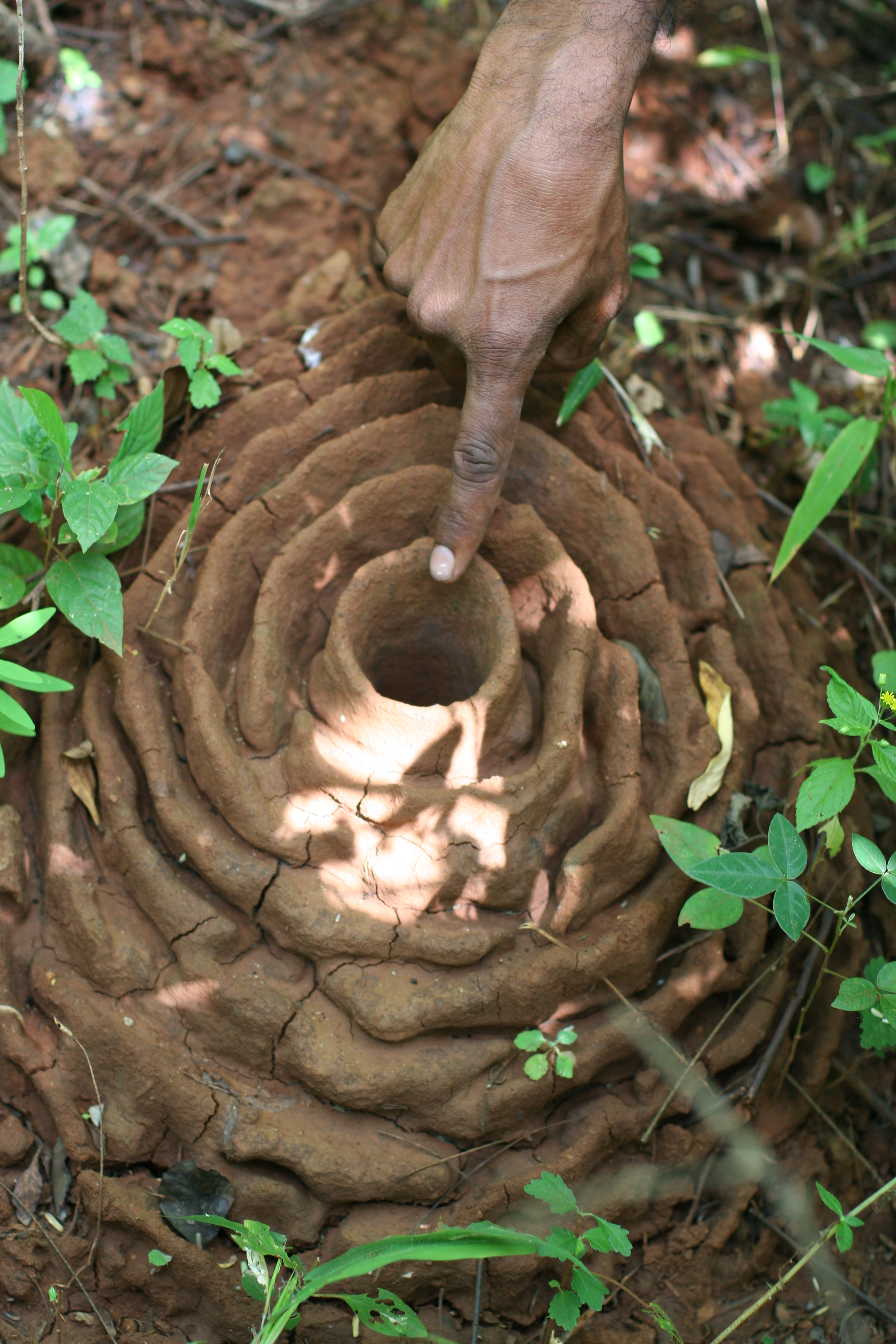 This is an image of the entrance to the nest of a species of Indian Harvester Ant. This was spotted in the hills approximately 30 km North-West of Pune, Maharashtra, India.